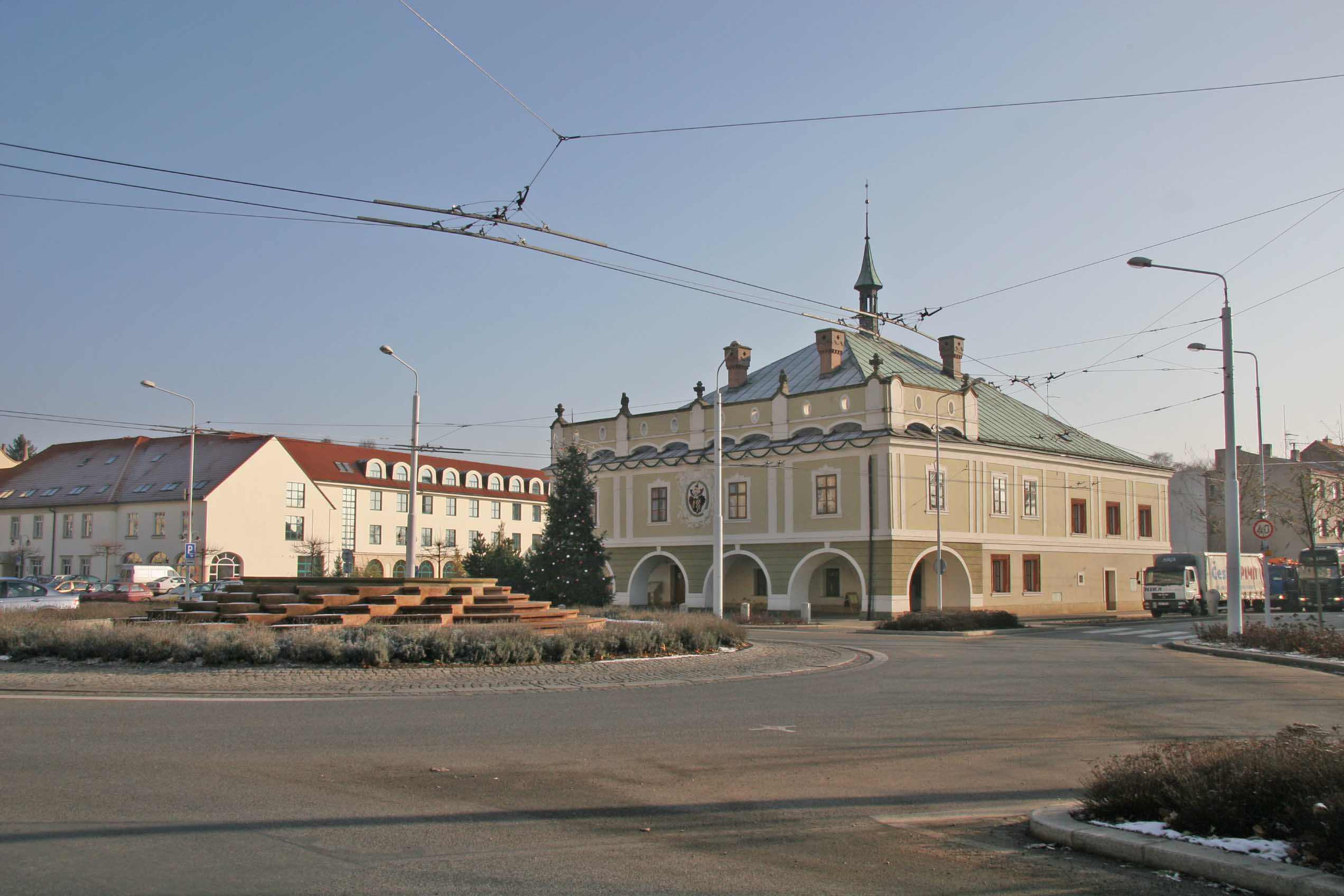 Renaissance town hall in Lázně Bohdaneč, Czech Republic.